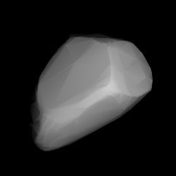 3D convex shape model of 407 Arachne, computed using light curve inversion techniques. J. Hanuš, J. Ďurech, M. Brož, B. D. Warner (June 2011). "A study of asteroid pole-latitude distribution based on an extended set of shape models derived by the lightcurve inversion method". Astronomy and Astrophysics 530: A134. ISSN 0004-6361. arXiv